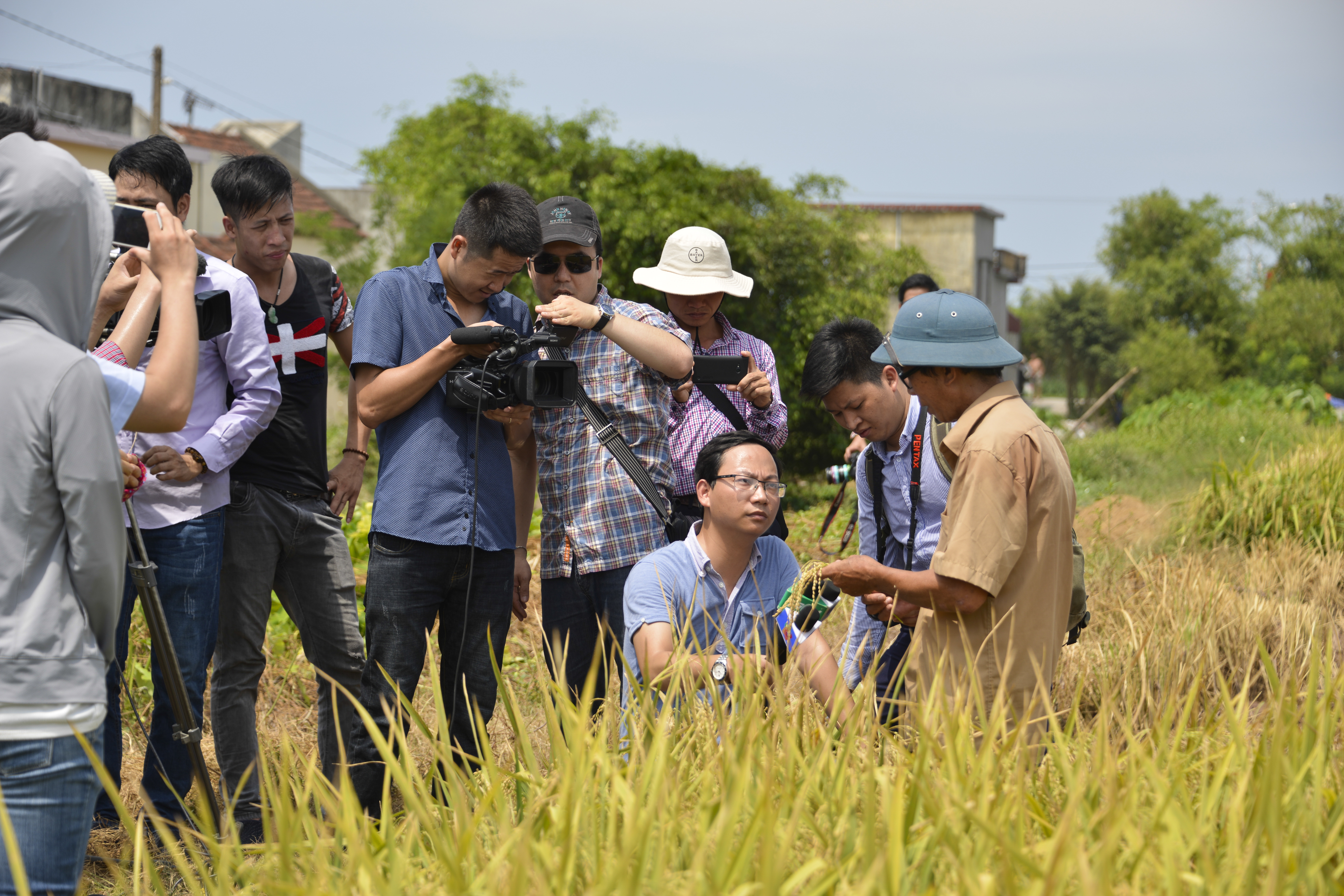 The journalists attending the training workshop have an opportunity to a climate smart rice model supported by USAID. Giao Hai commune, Giao Thuy district, Nam Dinh Province. Photo: Phuong Nguyen/USAID.